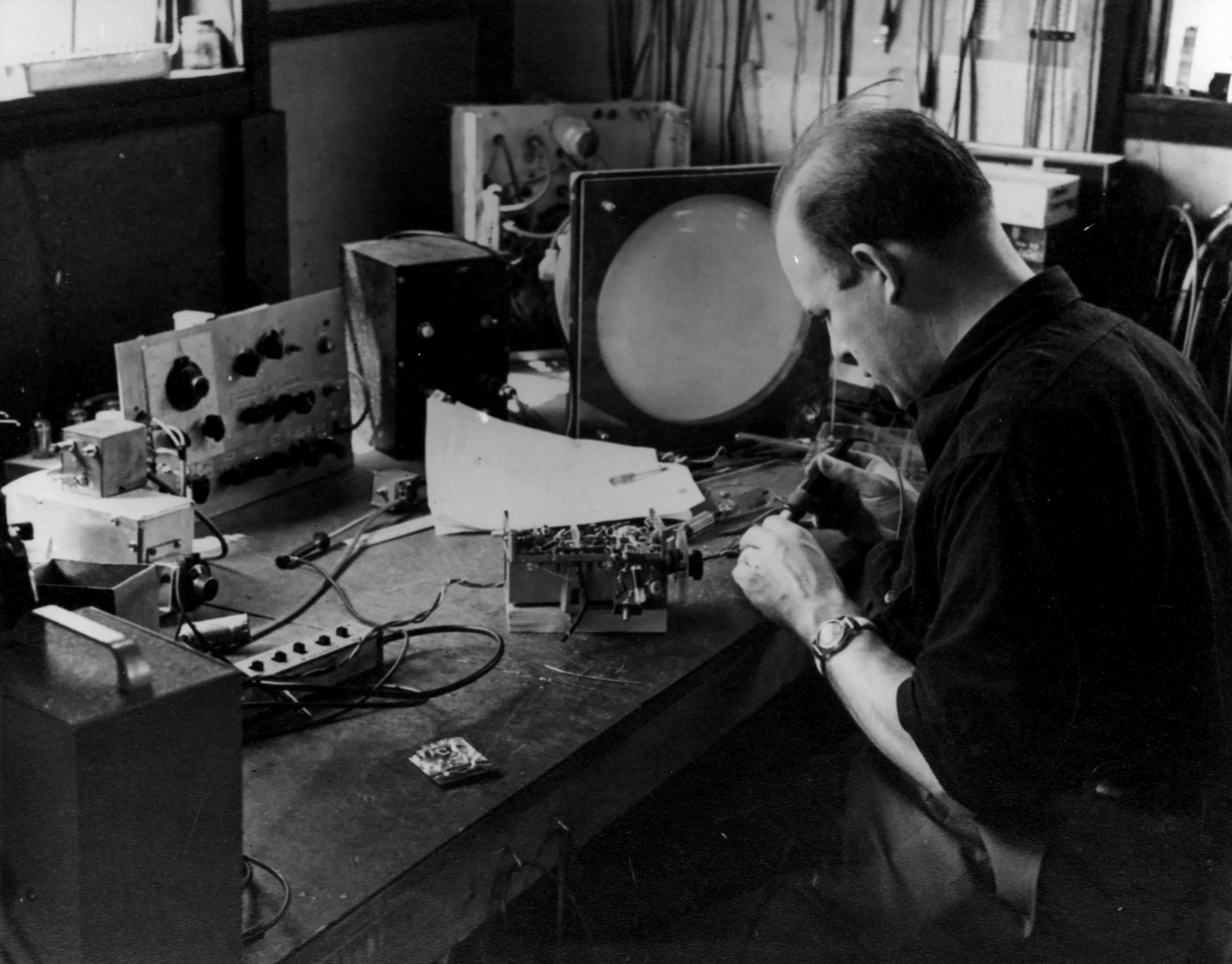 Keneth Alden Simons, at his bench designing early components for cable television